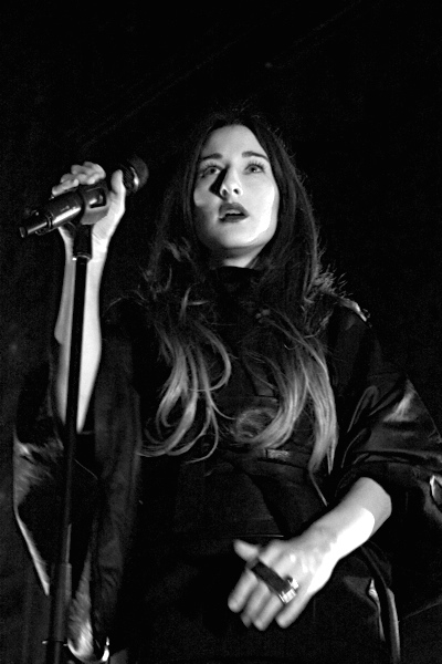 Zola1